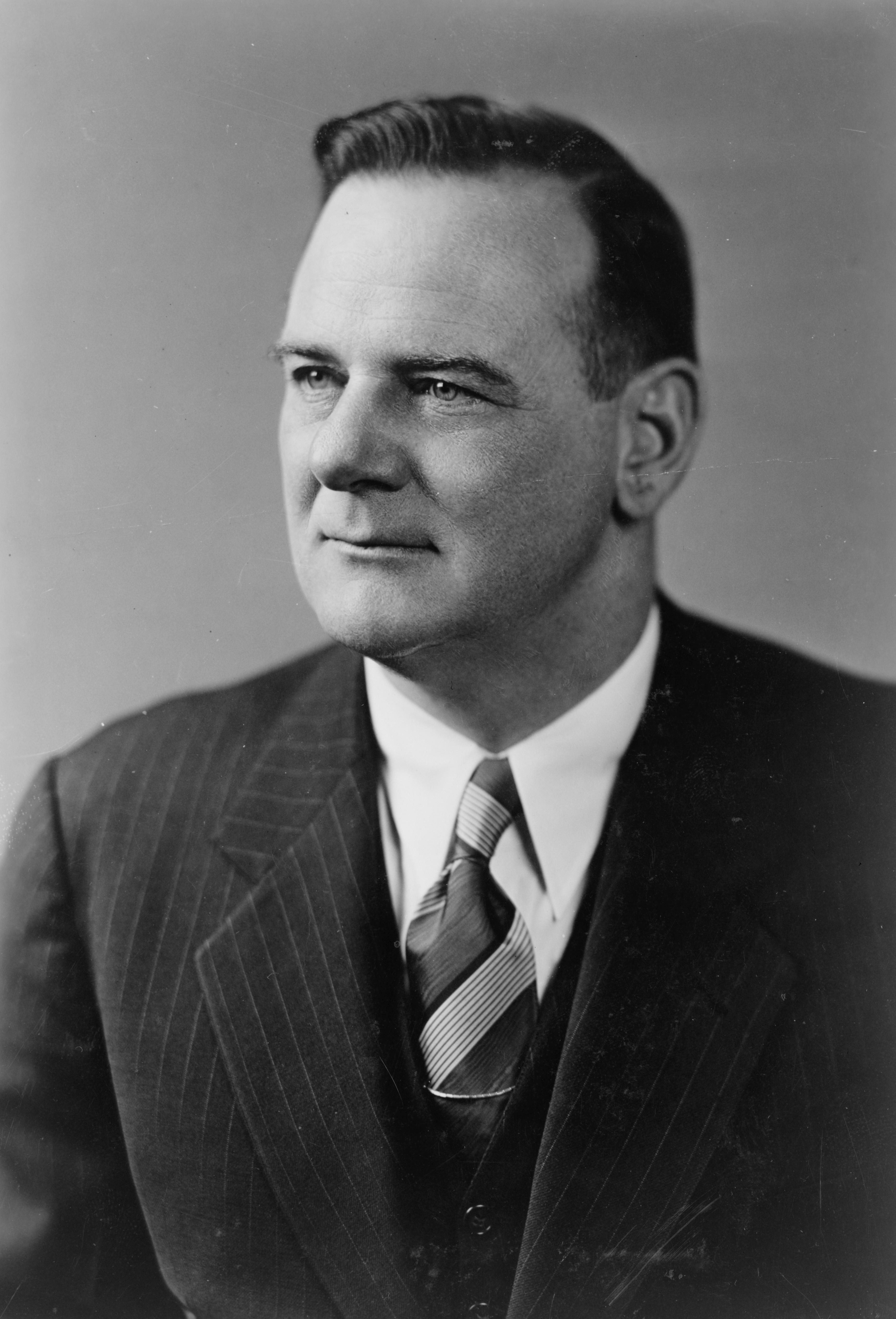 George Meader, Republican representative from Michigan's 2nd district, head-and-shoulders portrait